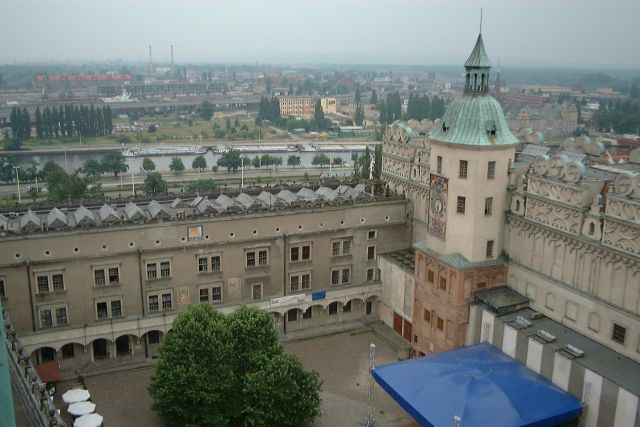 Castle in Szczecin.